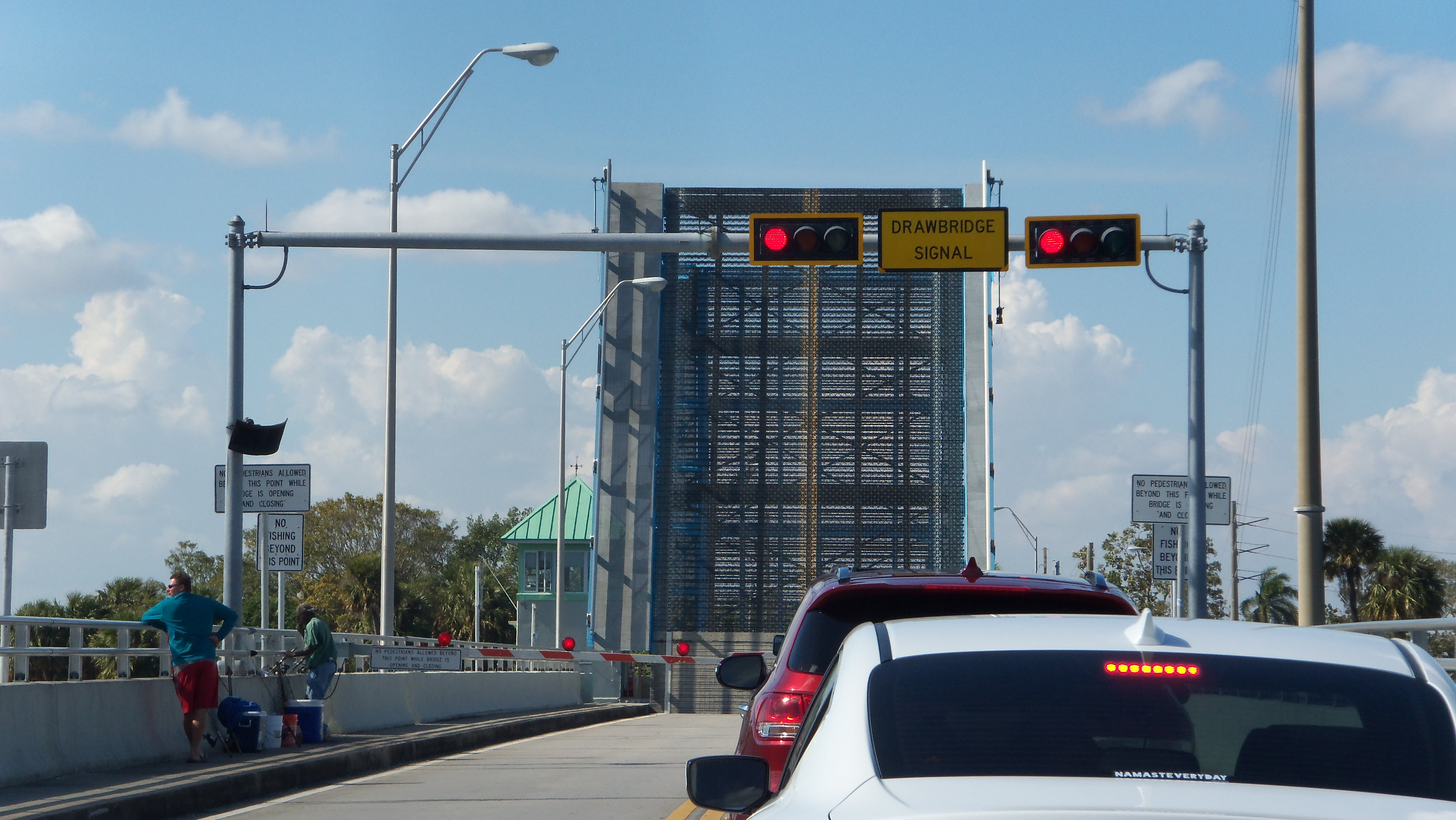 Roadway view of the St. Lucie River Bridge, in Stuart, Florida, with traffic waiting during an opening of the drawbridge span. Built in 1964, the double-leaf bascule bridge carries the Dixie Highway (FL 707) across the St. Lucie River.